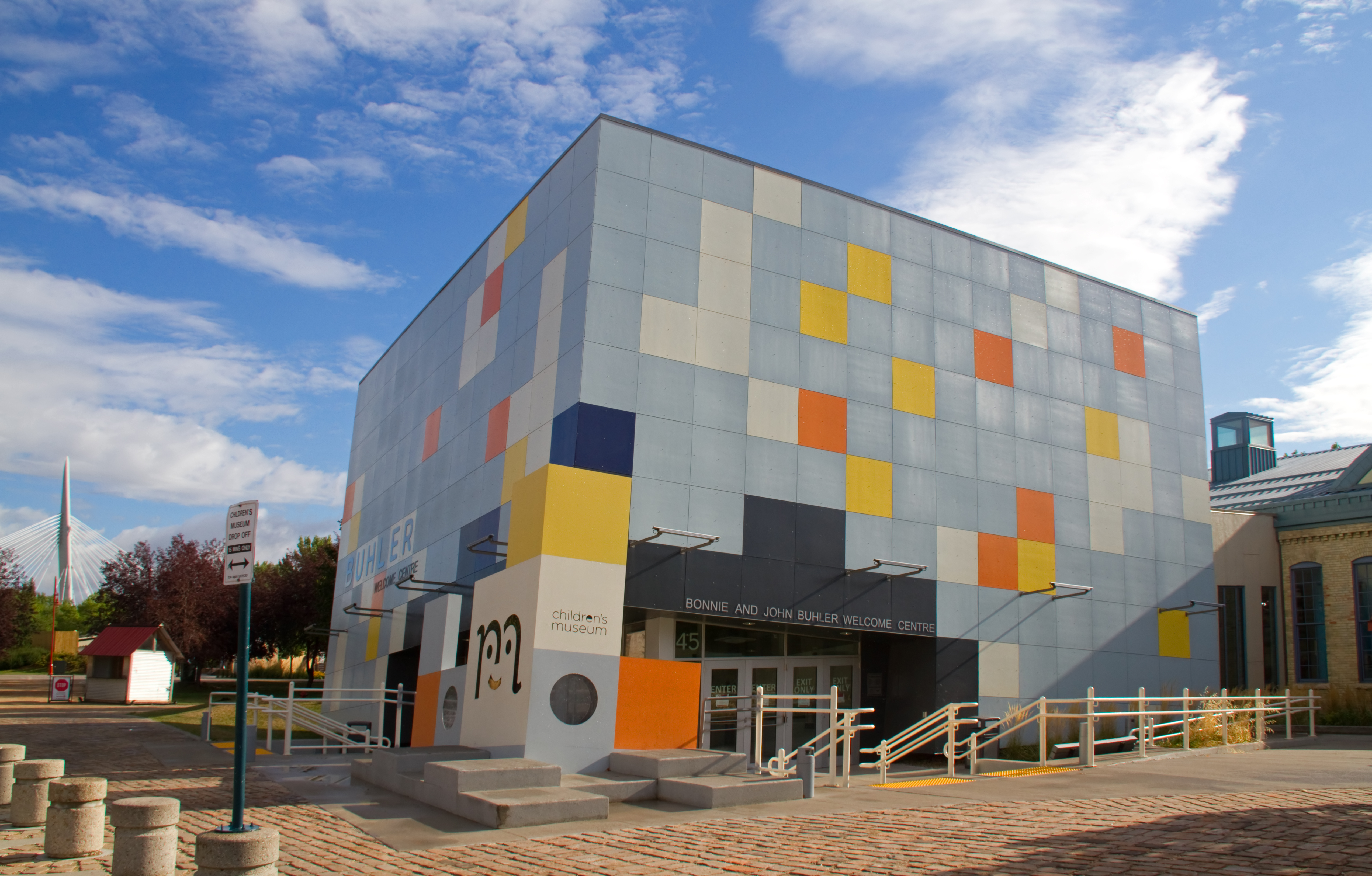 On the Train from Toronto to Edmonton